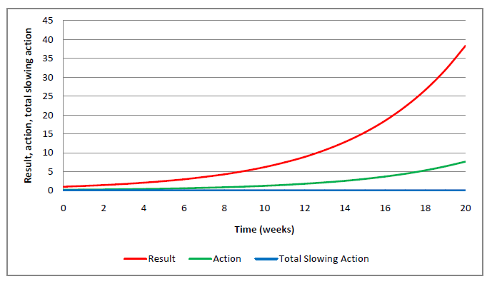 unlimited growth